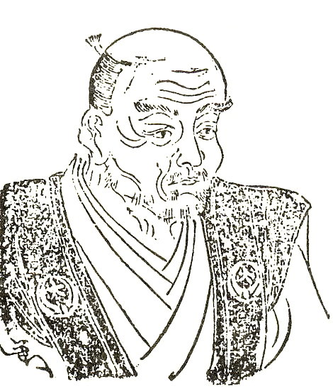 Ōkubo Hikozaemon (大久保彦左衛門) was a Japanese warrior in the Sengoku and Edo periods.This Picture was carried on the book of the name, " the imperial biographic dictionary （帝国人名辞典）".This book was published in 1907.